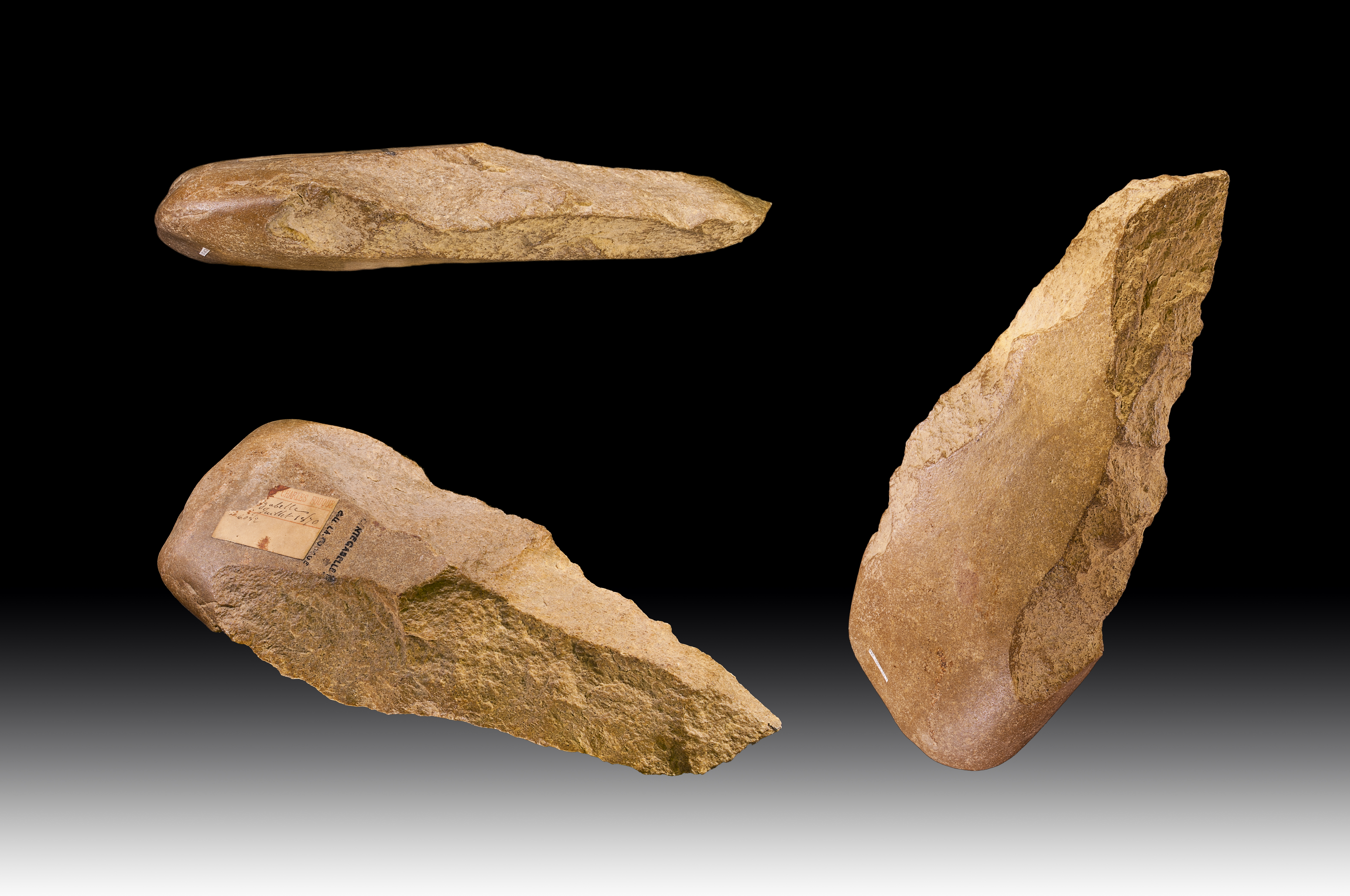 Different views of the same specimen.